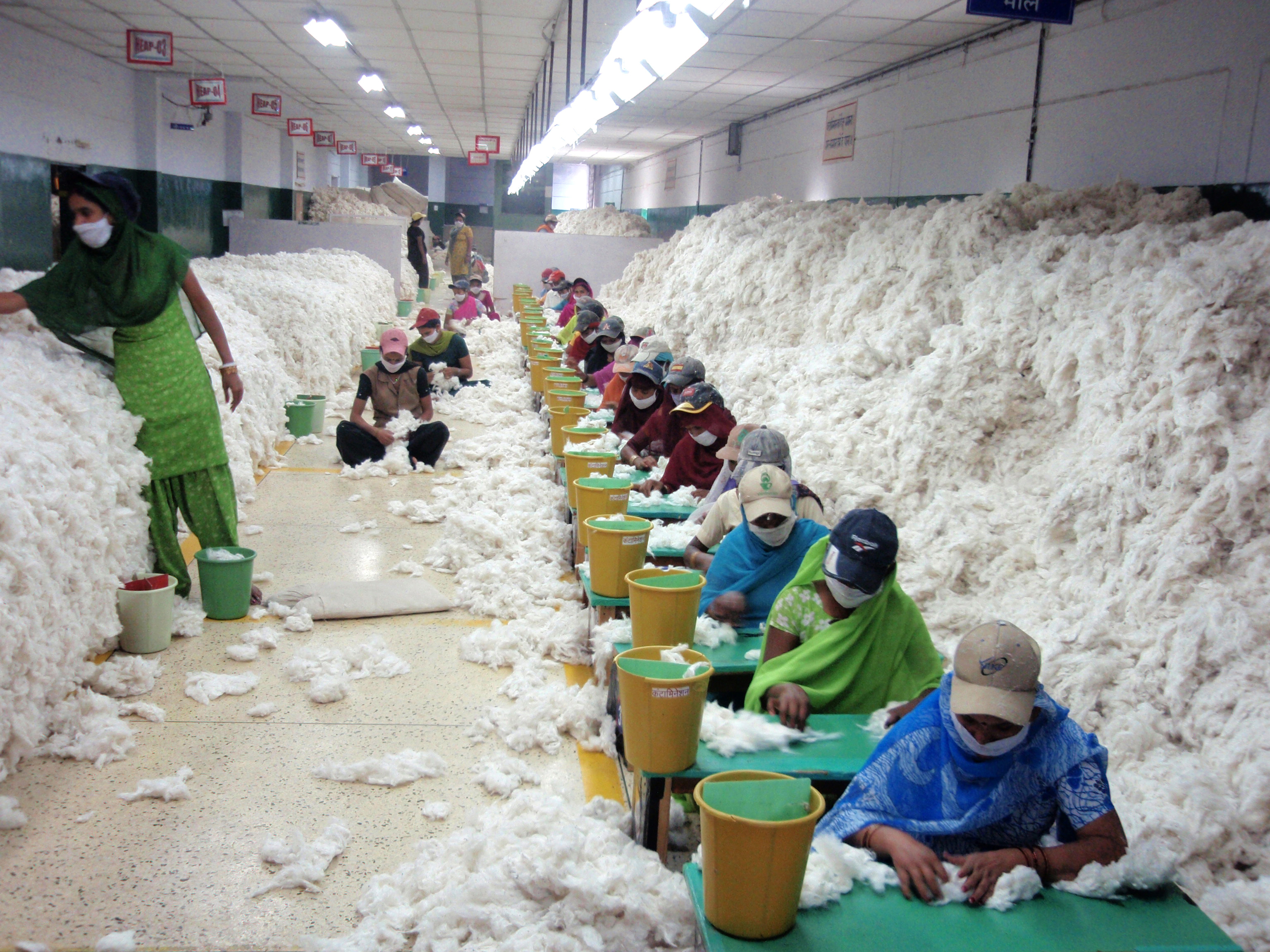 In 2009, SIRO and the Cotton Catchment Communities CRC (Cotton CRC) released FIBREpak, a guide designed to help the Australian cotton industry improve the quality of the fibre it produces. FIBREpak contains information for managing fibre quality at every step, from variety choice and crop management through to harvesting and ginning.